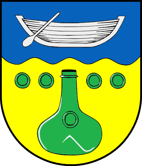 Coat of arms of the municipality Wittmoldt in Schleswig-Holstein, Germany.